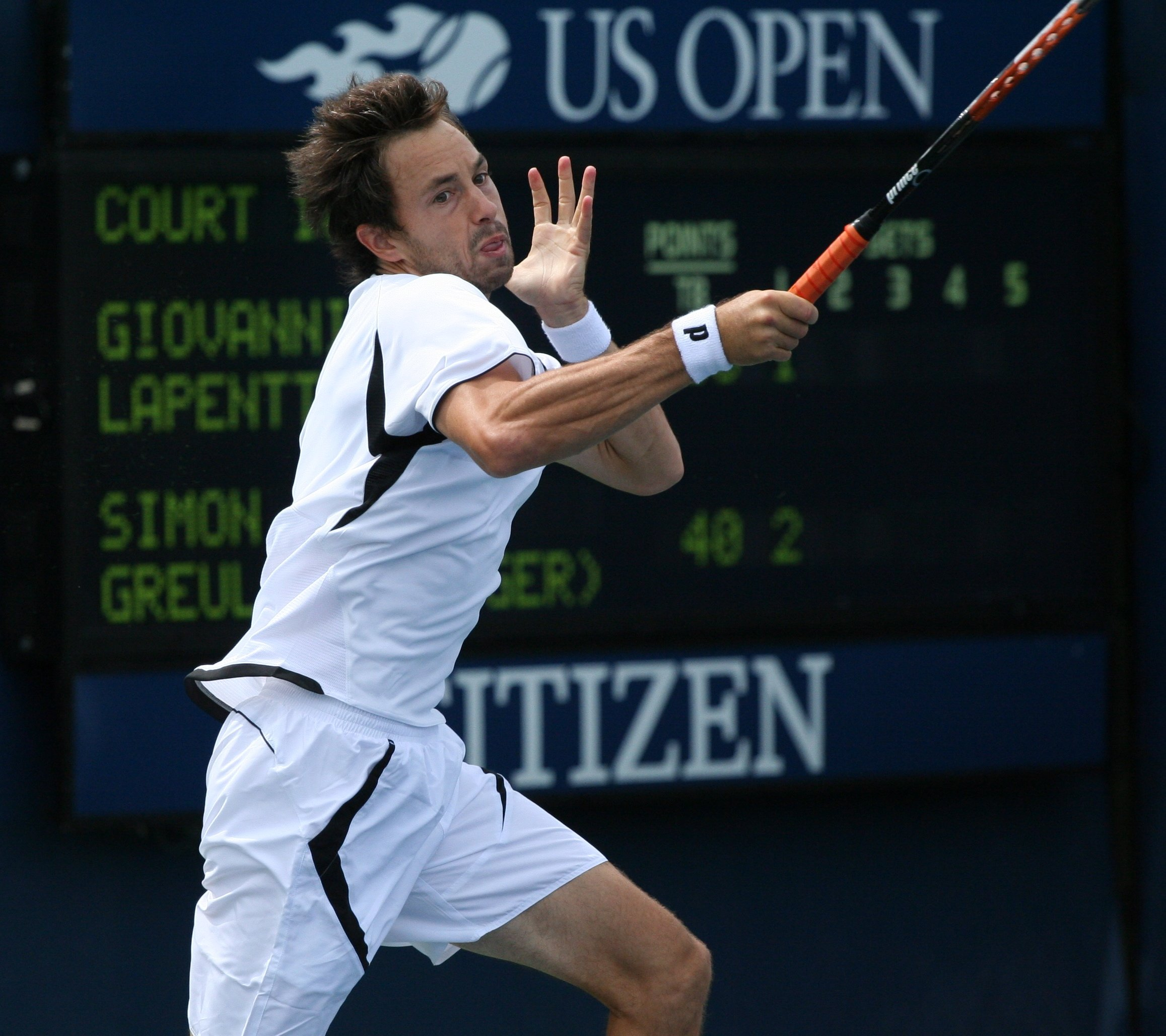 U.S. Open Monday, Aug. 31, 2009